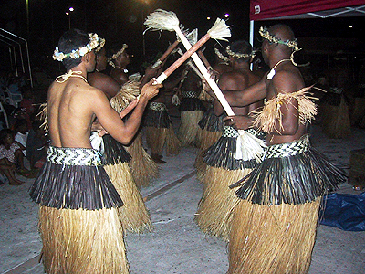 The Jobwa, a traditional Marshallese stick dance.